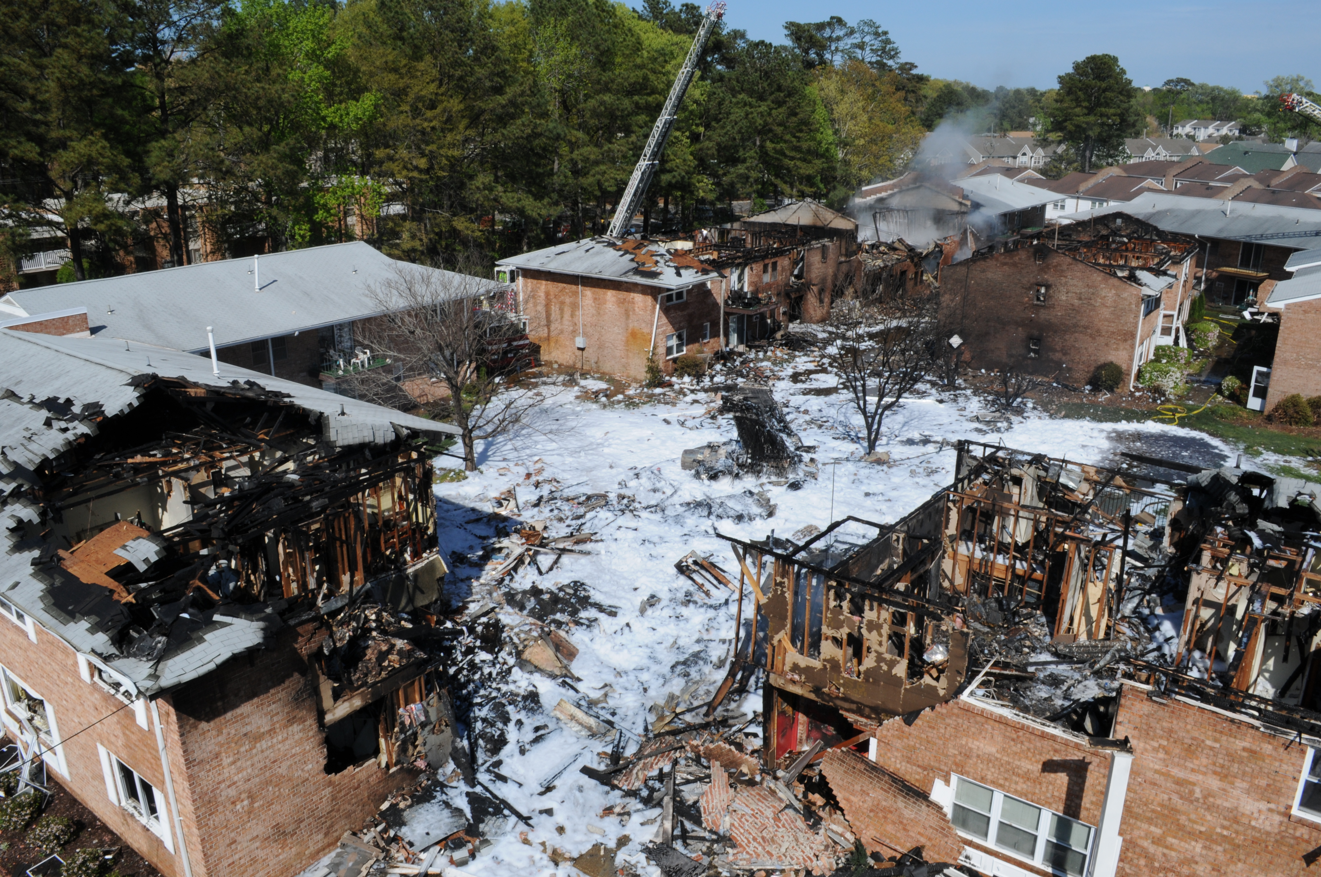 VIRGINIA BEACH, Va. (April 6, 2012) Firefighting foam covers the scene of a crash of an F/A-18D Hornet assigned to Strike Fighter Squadron (VFA) 106, April 6, 2012. Initial reports indicate that at approximately 12:05 p.m., the jet crashed just after takeoff at an apartment complex in Virginia Beach. Both air crew safely ejected from the aircraft and are being treated at a local hospital. (U.S. Navy photo by Mass Communication Specialist 3rd Class Antonio P. Turretto Ramos/Released) 120406-N-DC018-427